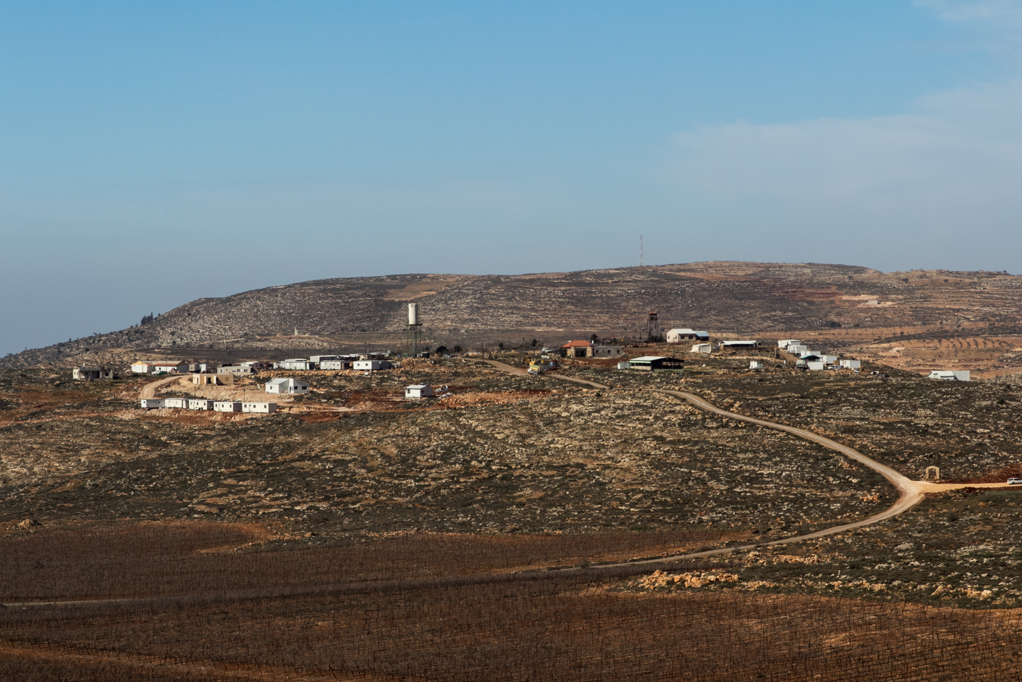 Peace Now's Price Tag tour, 31 January 31 2014. The illegal Israeli outpost of Esh Kodesh.